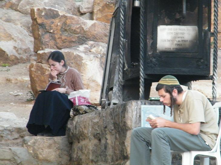 While under Othman occupation, muslims took a strong hold on Hebron. They barred Jews from entering the Patriarchs Cave, letting them up only to the seventh stair outside the cave. Israeli general, Rehavam Zeevi, never forgot, being al little boy, getting a vicious kick, throwing him down the stairs while running up, passing the seventh stair. The first thing he did after the Six Day War victory was to destroy those hateful stairs. The boy and girl praying at the stairs site might be a bride and groom praying for the success of their marriage.